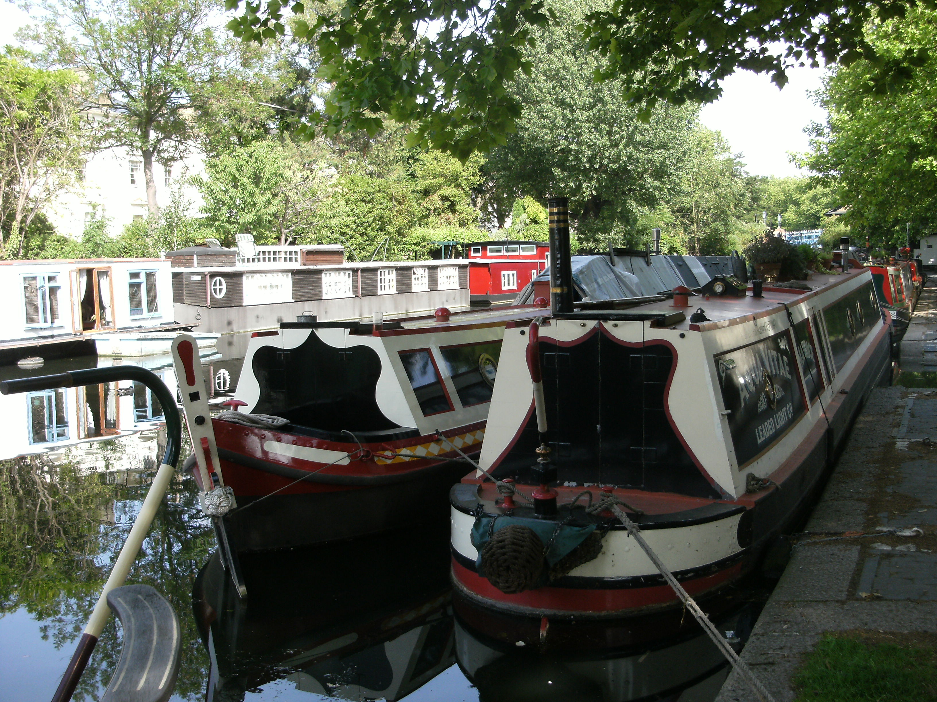 Narrowboats in Little Venice, London. On the Paddington Arm of the Grand Union Canal, on the stretch between the Harrow Road Bridge and Westbourne Terrace Road Bridge.